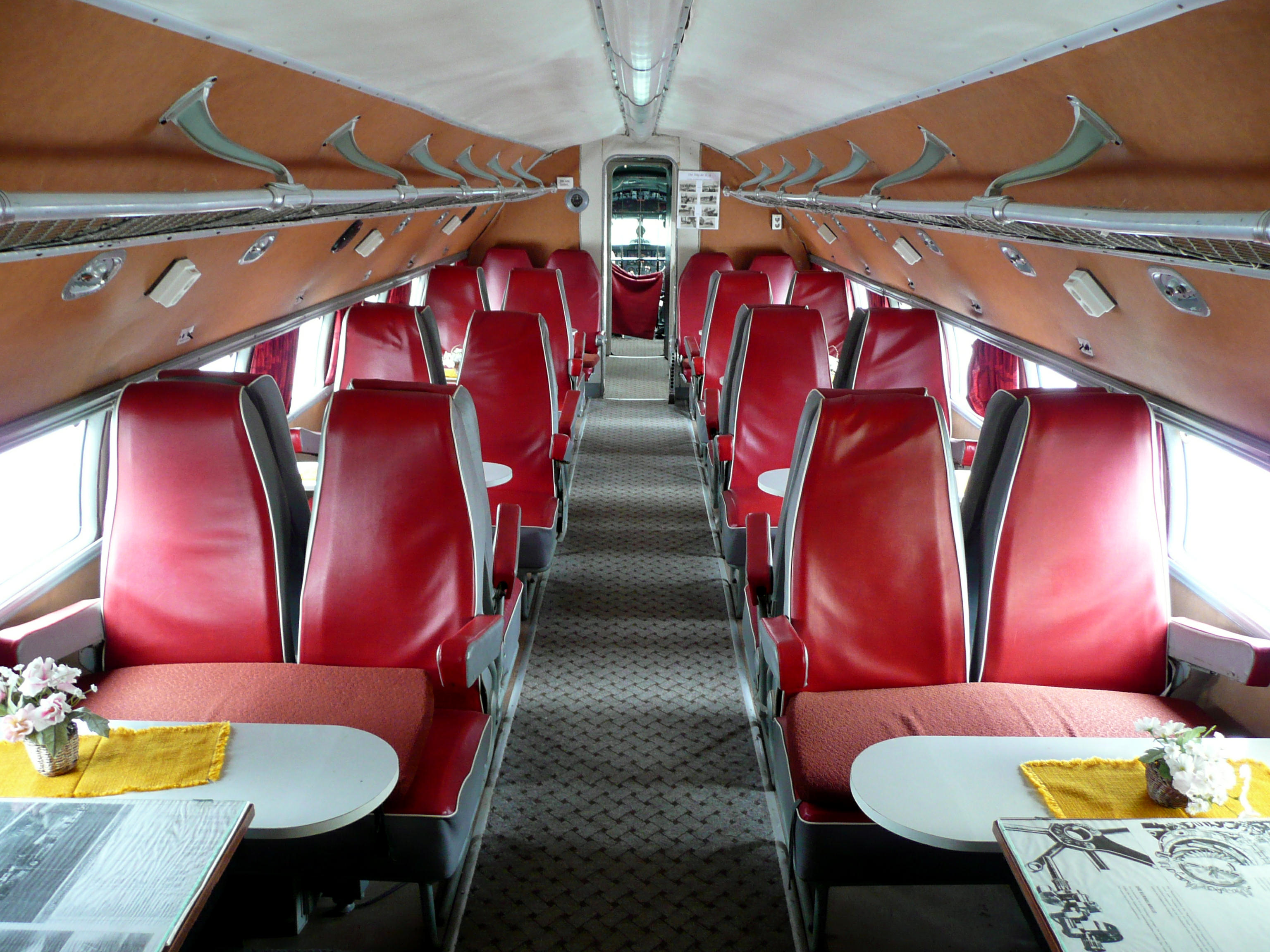 This image shows the cabin of a Ilyushin Il-14 (DM-SAB) of the former GDR state airline Interflug. The airplane was built 1957 and used as airliner until 1968.